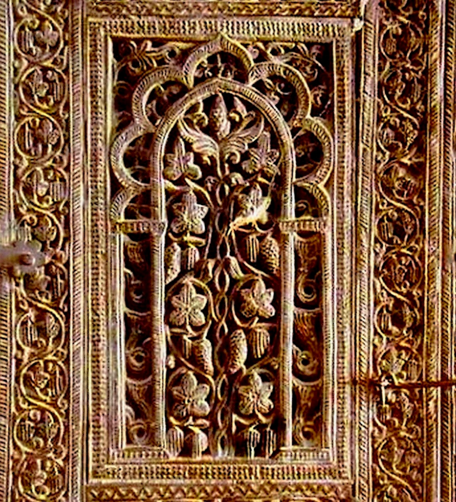 A carved panel of the 9th century minbar of the Great Mosque of Kairouan, in Tunisia.